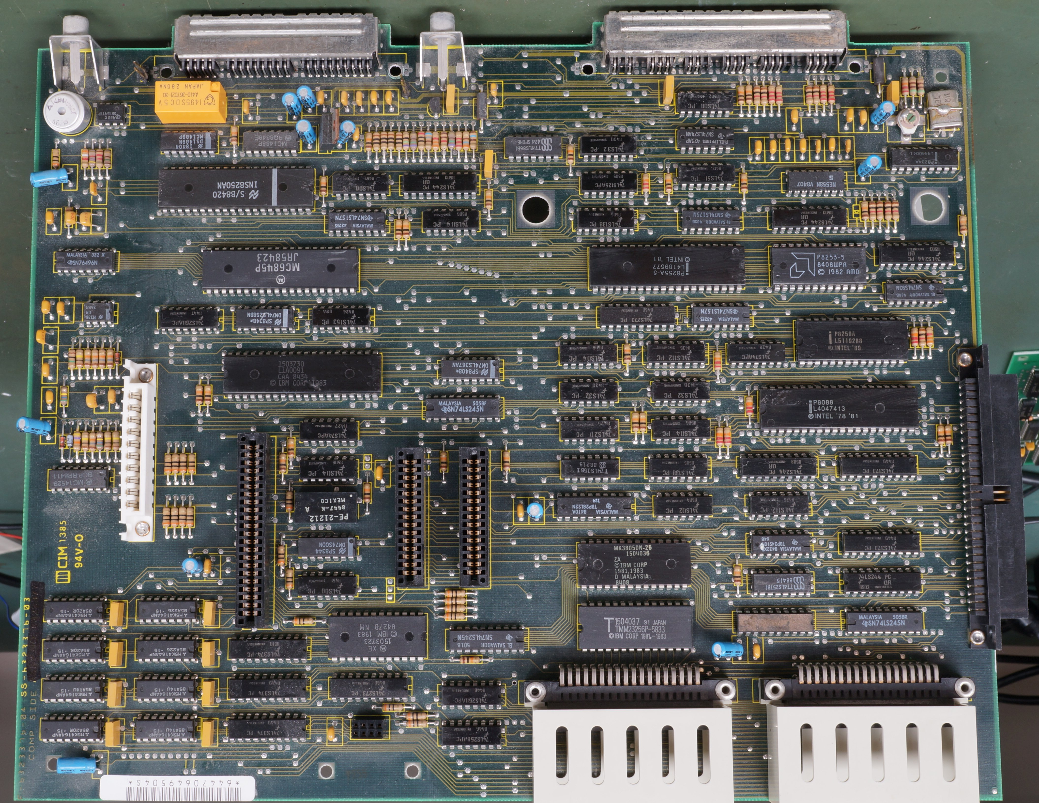 IBM PCB Jr Motherboard